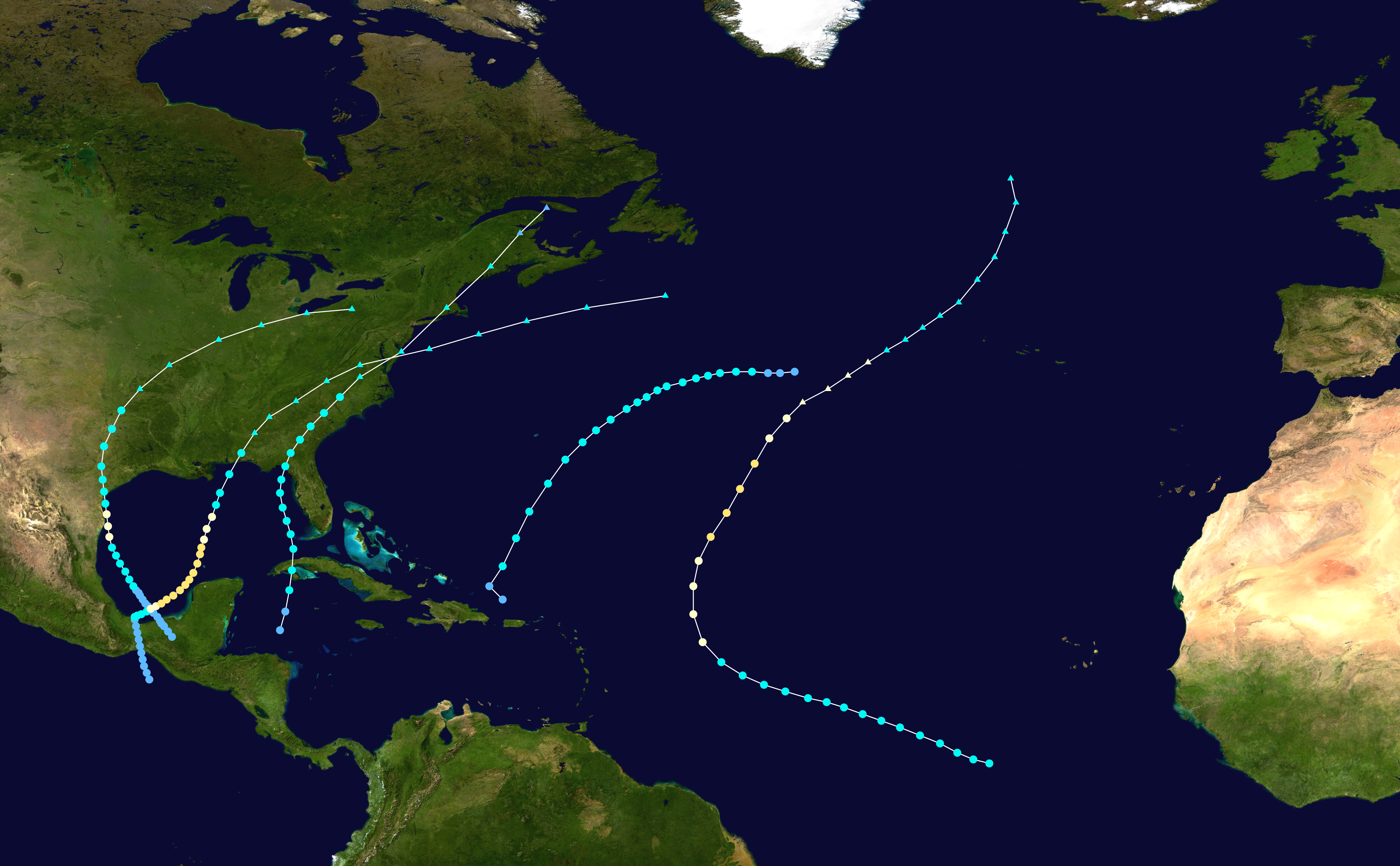 This map shows the tracks of all tropical cyclones in the 1902 Atlantic hurricane season. The points show the location of each storm at 6-hour intervals. The colour represents the storm's maximum sustained wind speeds as classified in the Saffir-Simpson Hurricane Scale (see below), and the shape of the data points represent the type of the storm. Saffir–Simpson scale Tropical depression≤38 mph≤62 km/h Category 3111–129 mph178–208 km/h Tropical storm39–73 mph63–118 km/h Category 4130–156 mph209–251 km/h Category 174–95 mph119–153 km/h Category 5≥157 mph≥252 km/h Category 296–110 mph154–177 km/h Unknown Storm type Tropical cyclone Subtropical cyclone Extratropical cyclone / Remnant low / Tropical disturbance / Monsoon depression